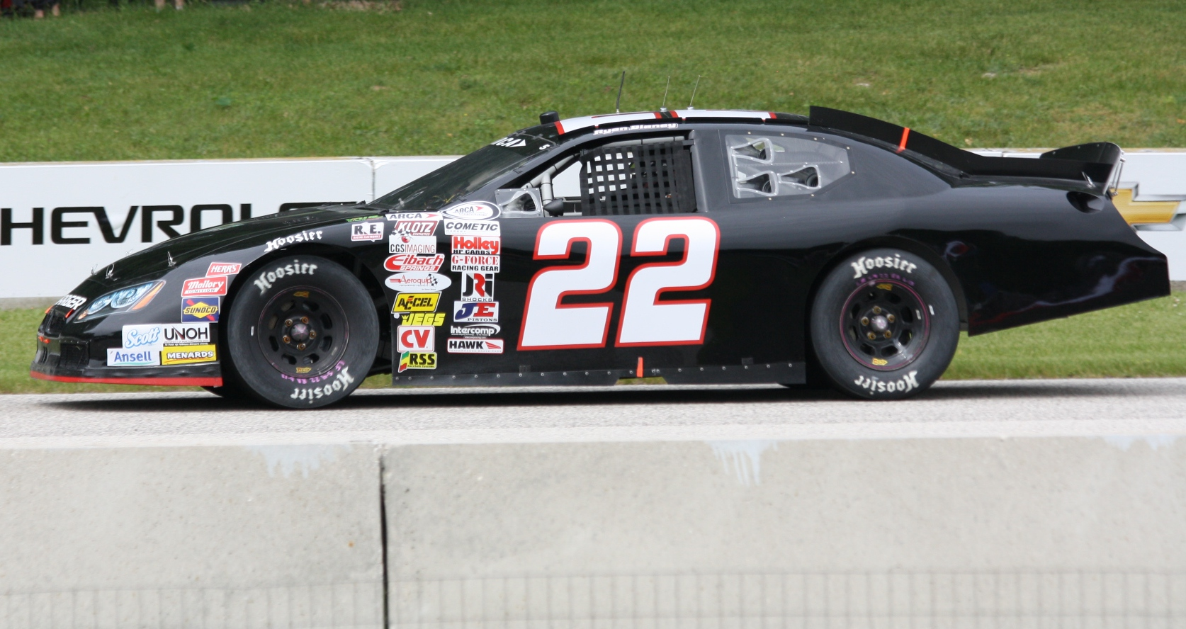 The ARCA Racing Series car of Ryan Blaney at the 2013 Scott 160 race at Road America.